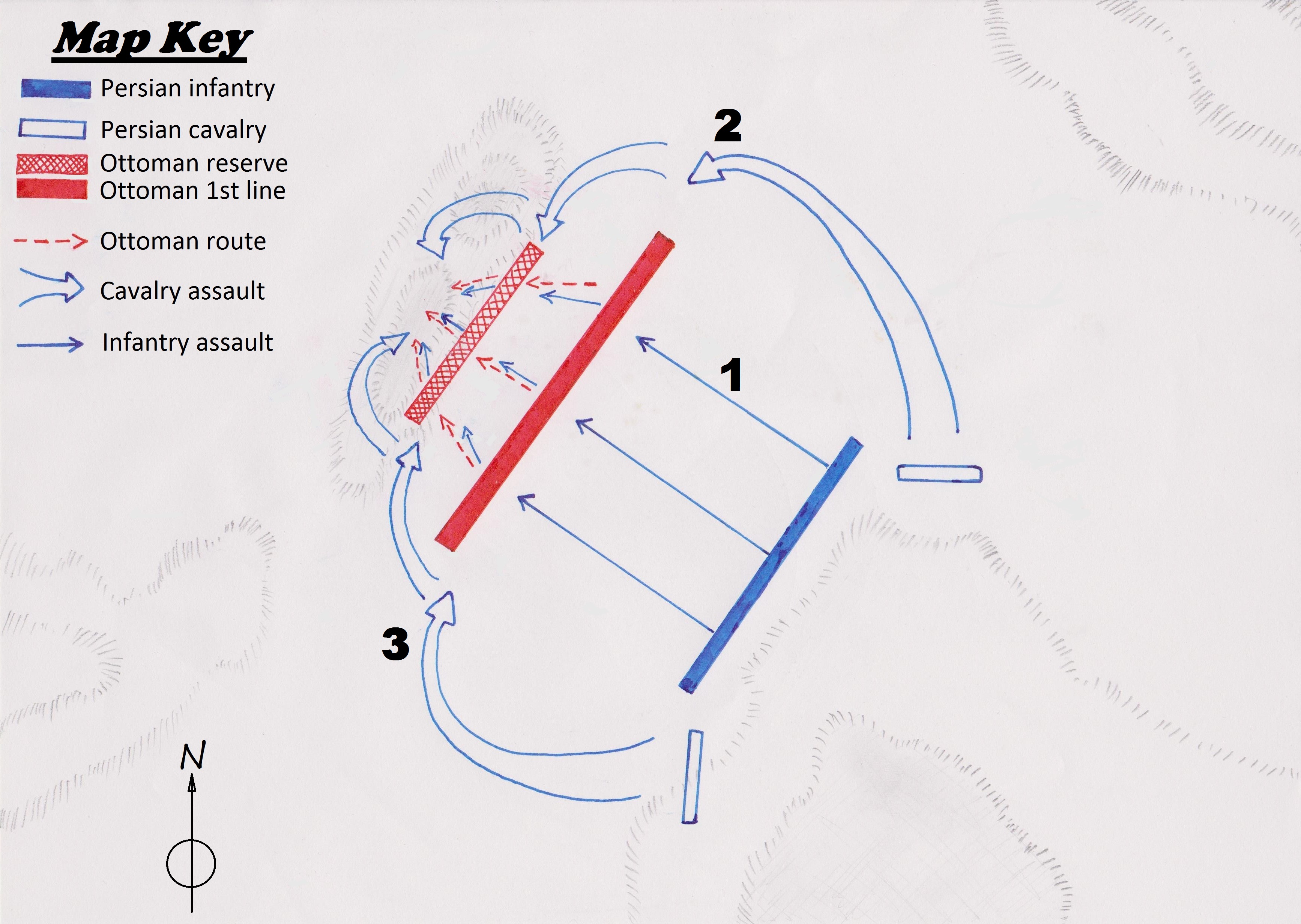 Kirkuk 1733